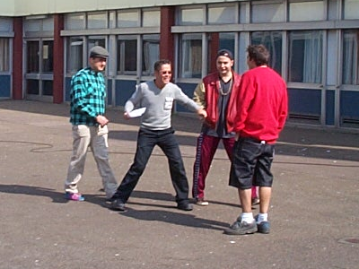 Ayhan Yigitokur, Benjamin Eicher and Simon Mora at the film-shooting of Dei Mudder sei Gesicht